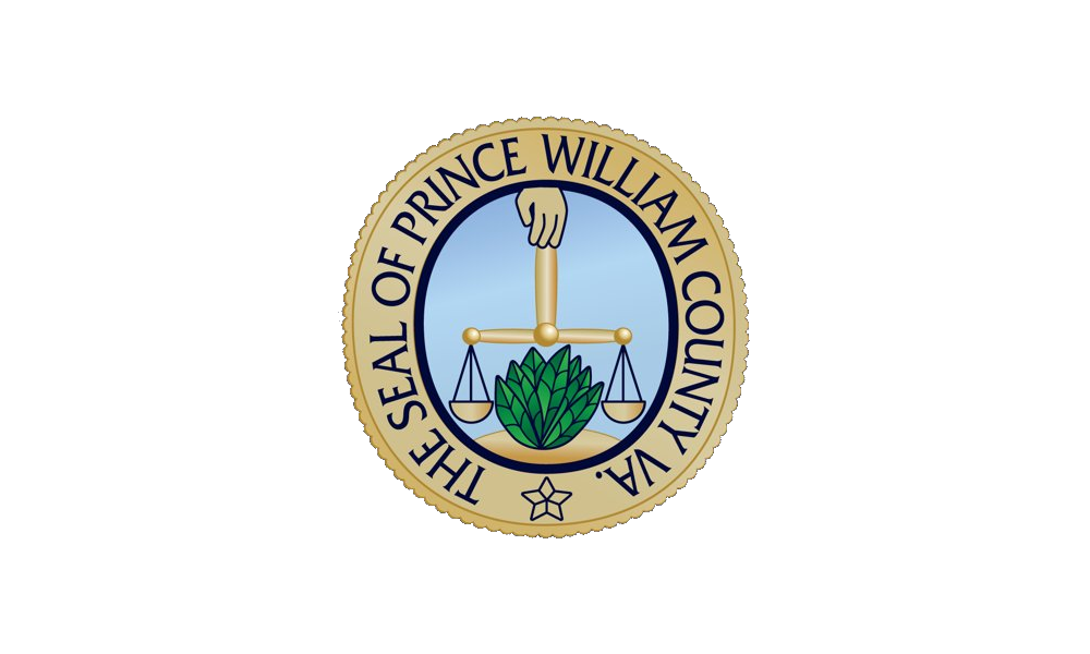 The official flag of Prince William County, Virginia. It consists of the county seal on a plain background. The seal itself was created in January 1935.